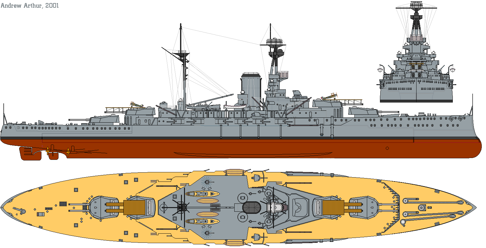 HMS Revenge, Royal Navy battleship, as she was in 1918. 1/450 scale.